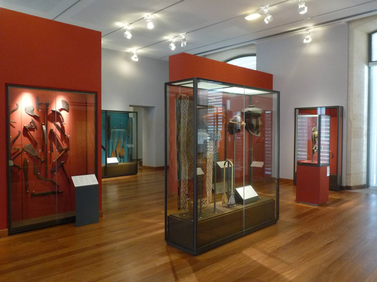 african and oceanian art floor, city museum of Angoulême, France